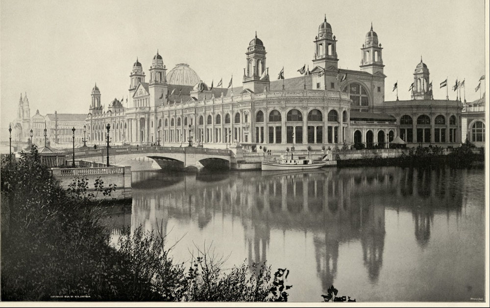 Electricity Building, Looking South West. Large photographic print from The White City (As It Was), photographs by William Henry Jackson. World's Columbian Exposition 1893. Digitial Identifier: GN90799d_JWH_017w World's Columbian Exposition Collection at The Field Museum